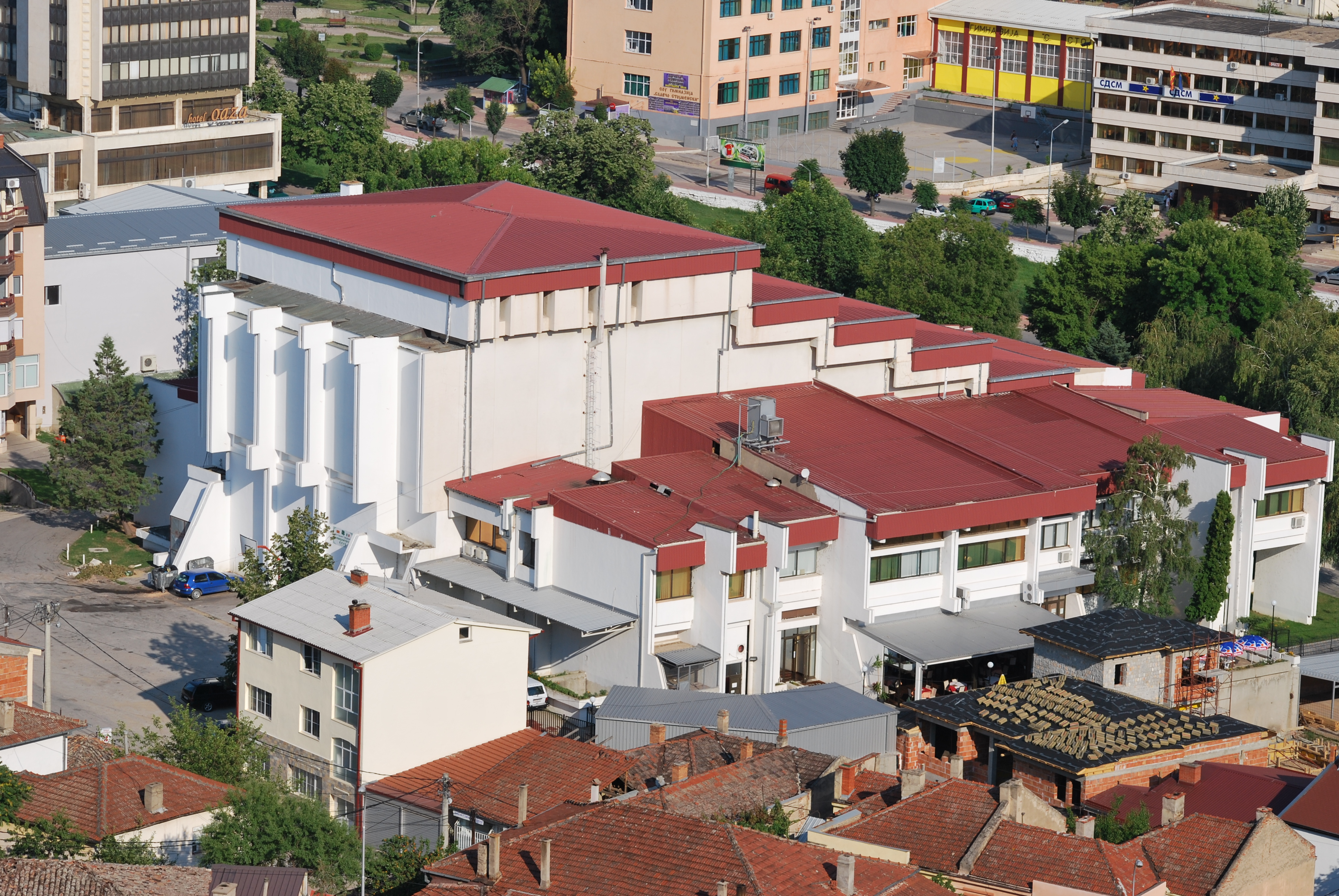 Štip, Macedonia